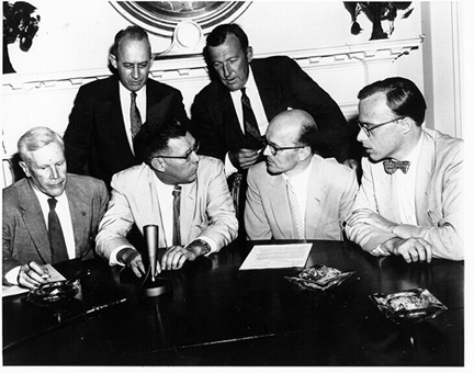 July 29, 1955. Announcement of plans for the building and launching of the world's first man-made satellite. The then Presidential press secretary James Hagerty is shown with five scientists during the meeting at which announcement of President Eisenhower's approval of the plan was made. Front, left to right, are: Dr. Alan T. Waterman, James Hagerty, Dr. S. Douglas Cornell and Dr. Alan Shapley. Standing, left to right: Dr. J. Wallace Joyce and Dr. Athelstan Spilhaus.